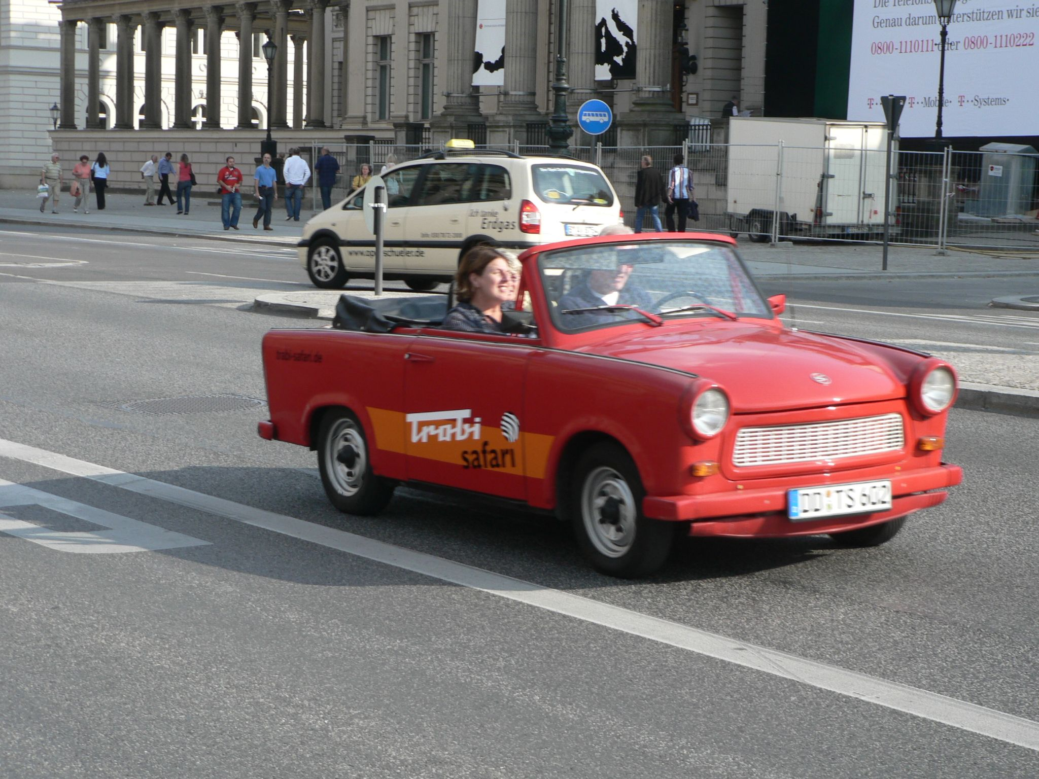 These cars were part of the Trabant Safari - a round the city sightseeing tour.